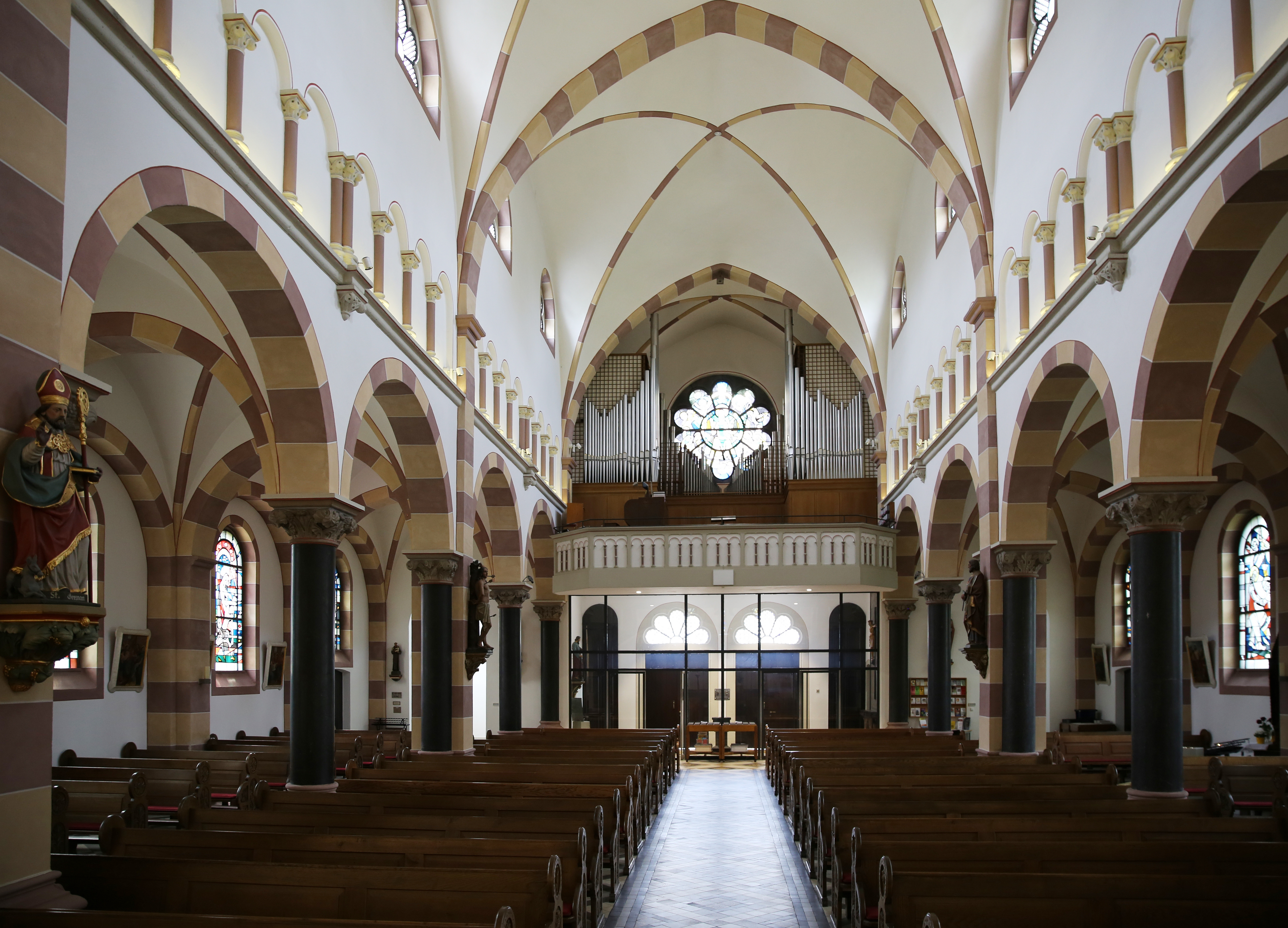 Catholic church of St Germanus in Wesseling